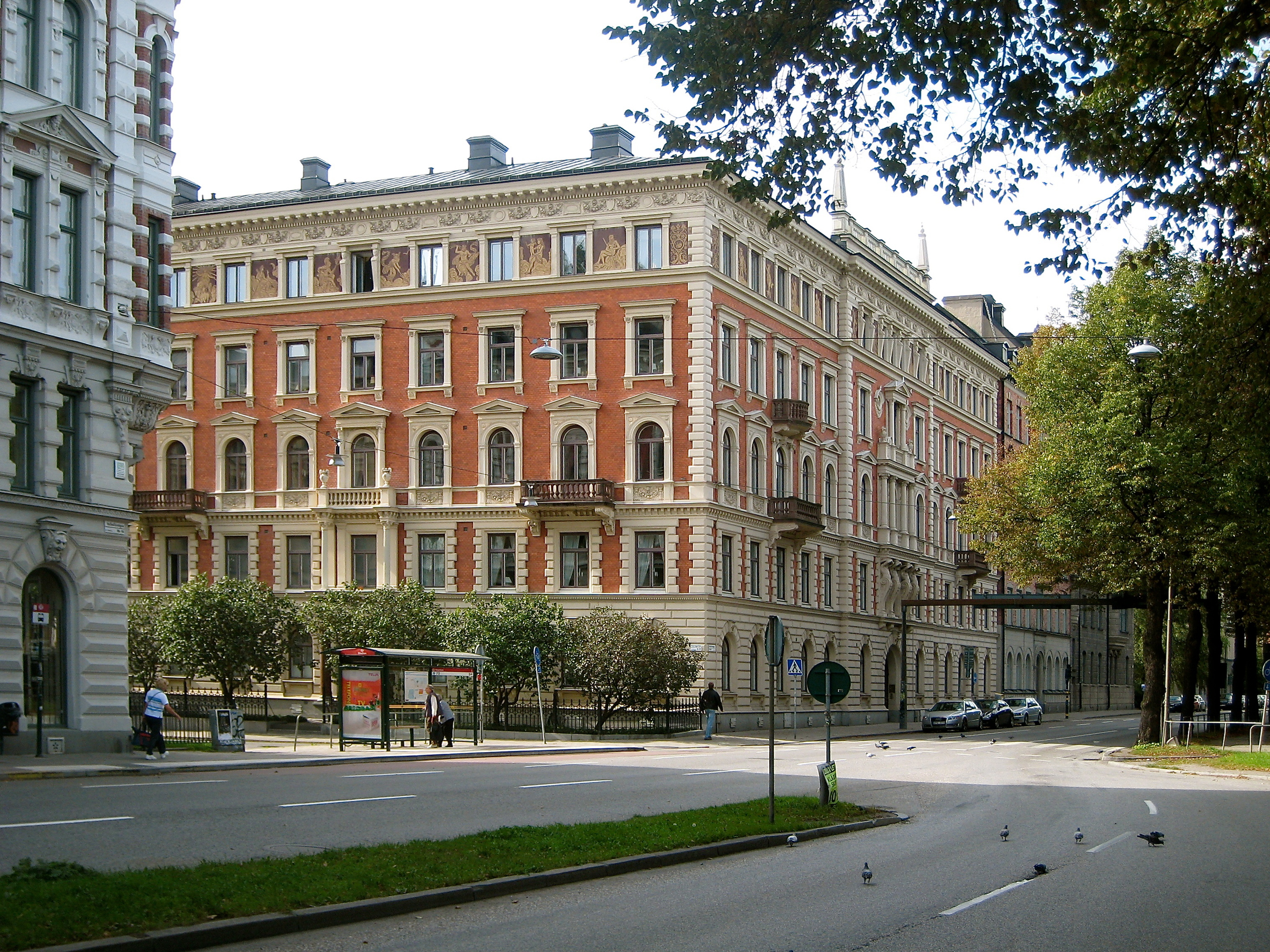 Valhallavägen 92.